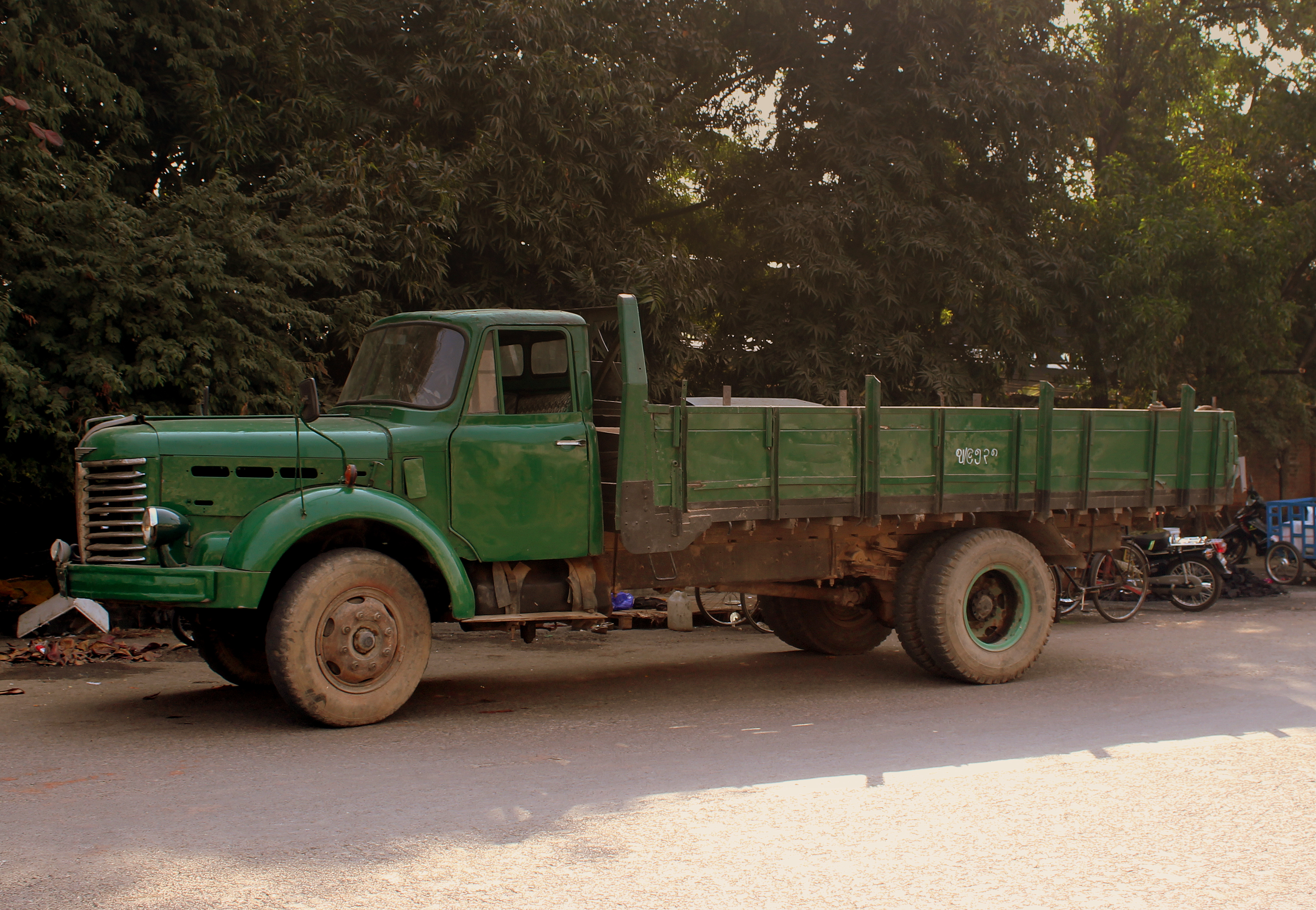 OLD HINO TRUCK AT MANDALAY RAILWAY STATION MYANMAR FEB 2013